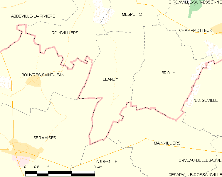 Map of French municipality Blandy